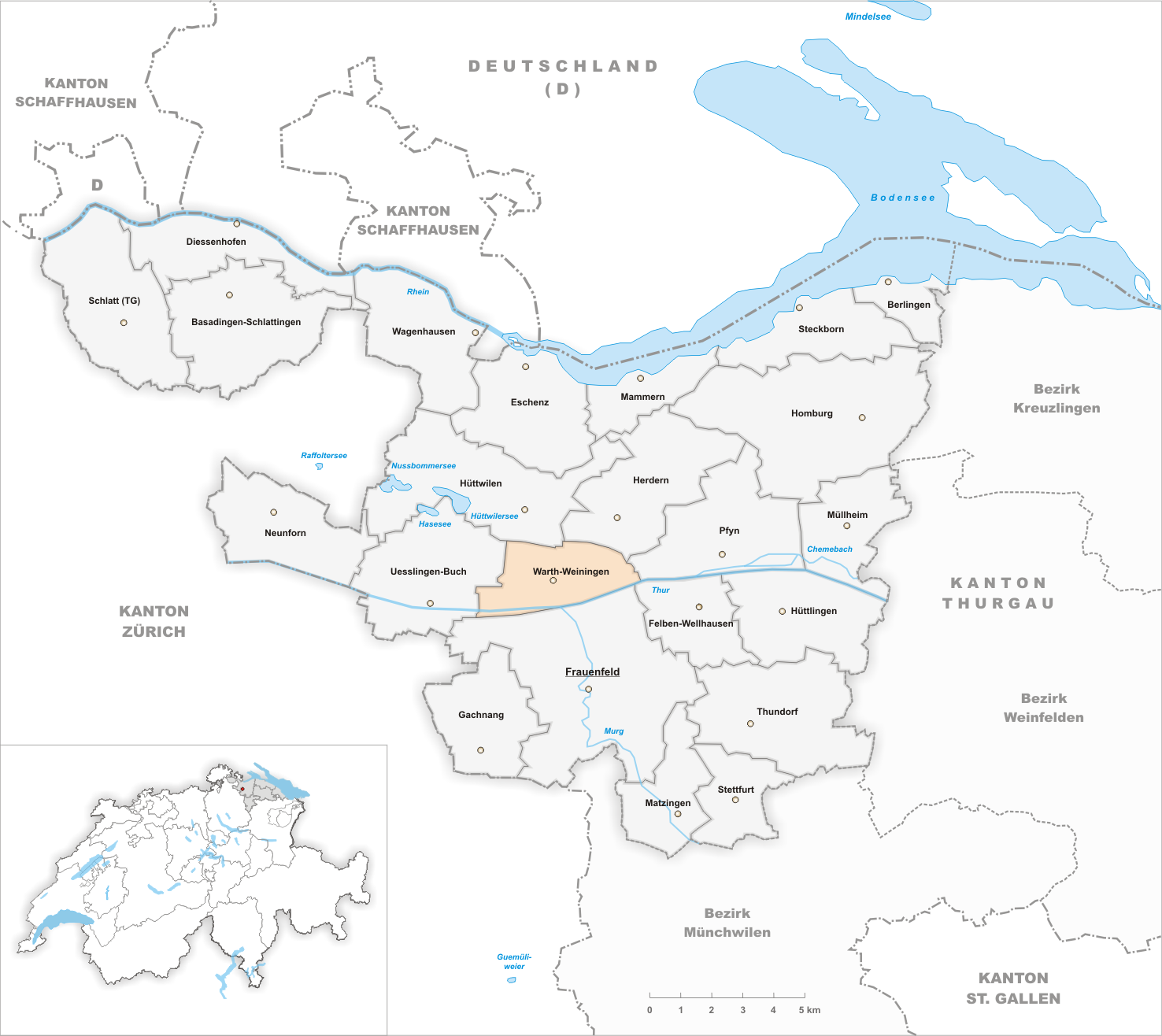 Municipality Warth-Weiningen